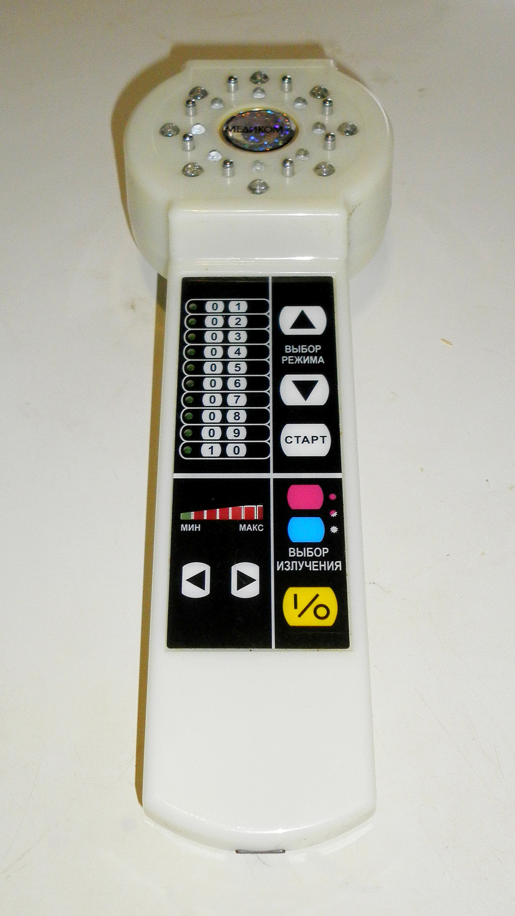 Medicom 4